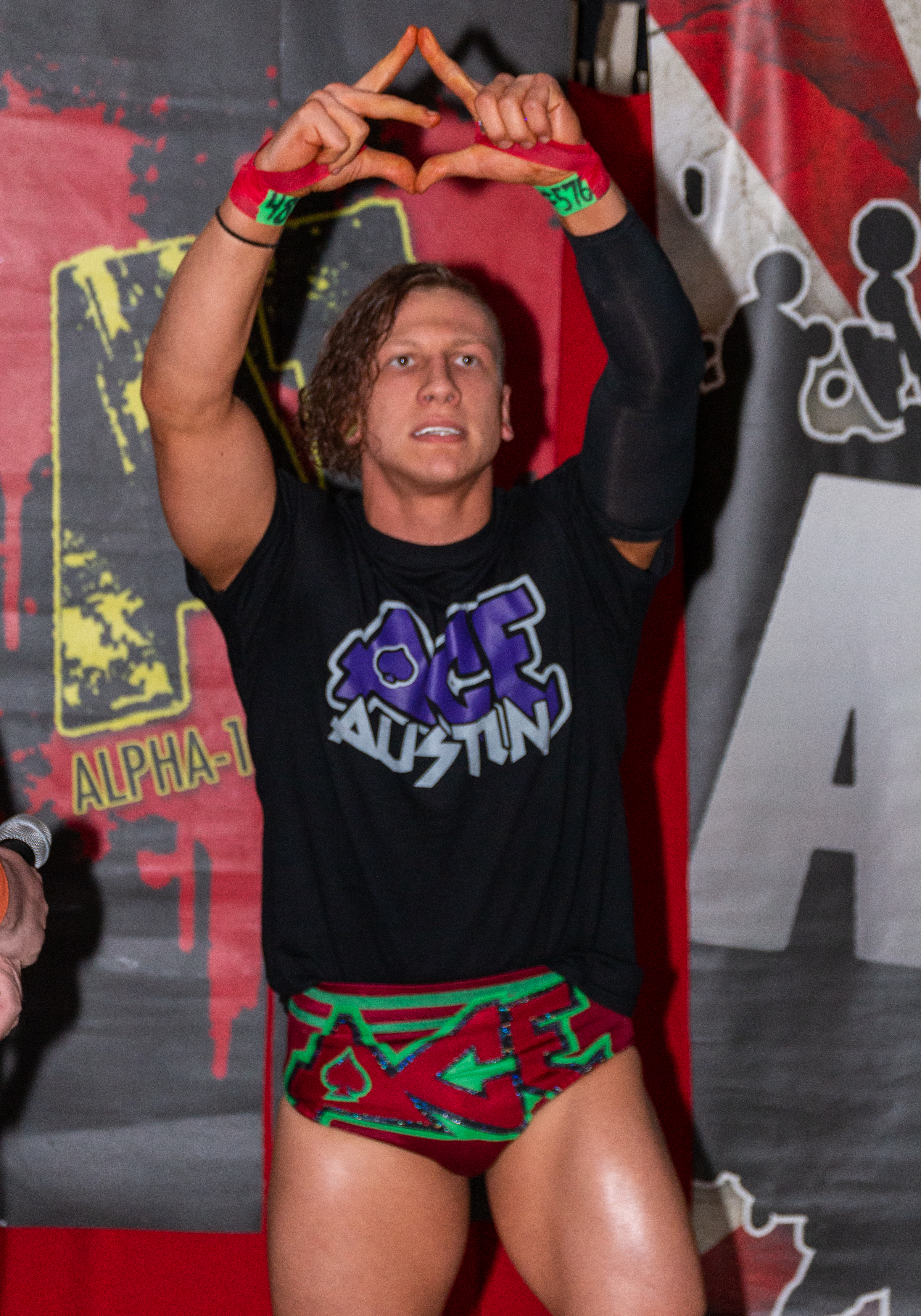 Ace Austin making his ring entrance at Alpha-1's Immortal Kombat 7 show in Hamilton, ON